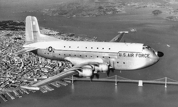 Douglas C-124C-DL Globemaster II 50-087 Origionally a C-124A, later converted to C-124C. To MASDC as CQ0120 Nov 24, 1969